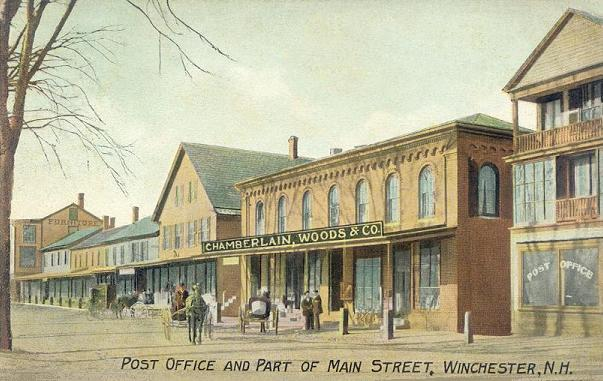 Post Office and part of Main Street, Winchester, New Hampshire